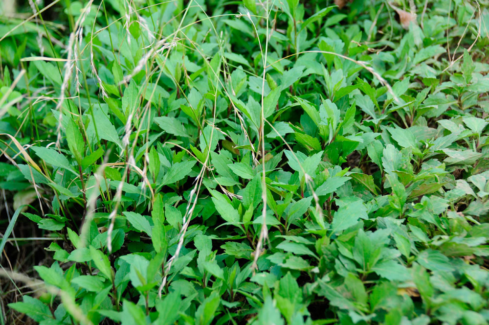 Kalimeris indica in the field